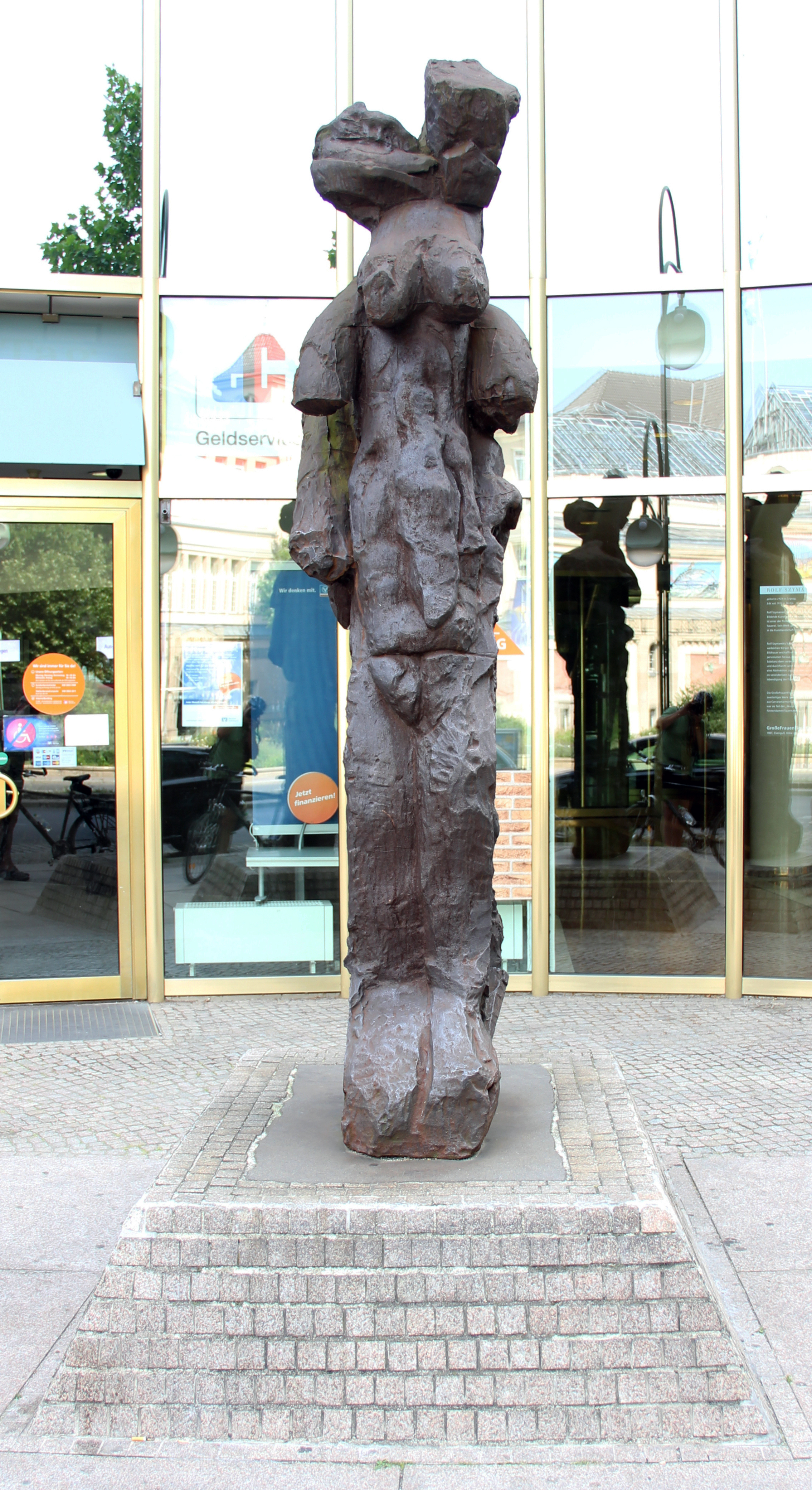 Sculpture, "GroßeFrauenFigurBerlin" by Rolf Szymanski, 1987, Budapester Straße 35, Berlin-Tiergarten, Germany